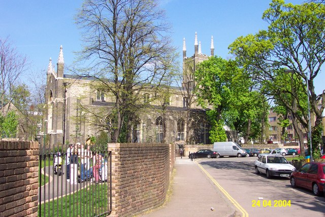 The former St Paul's parish church, Canonbury, London N1, seen from the southwest from Marquess Road